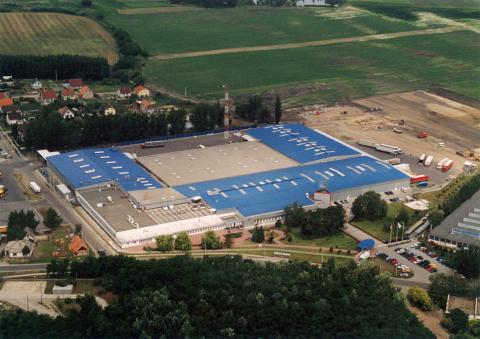 Jászfényszaru, Samsung television factory; Hungary, aerialphotography.